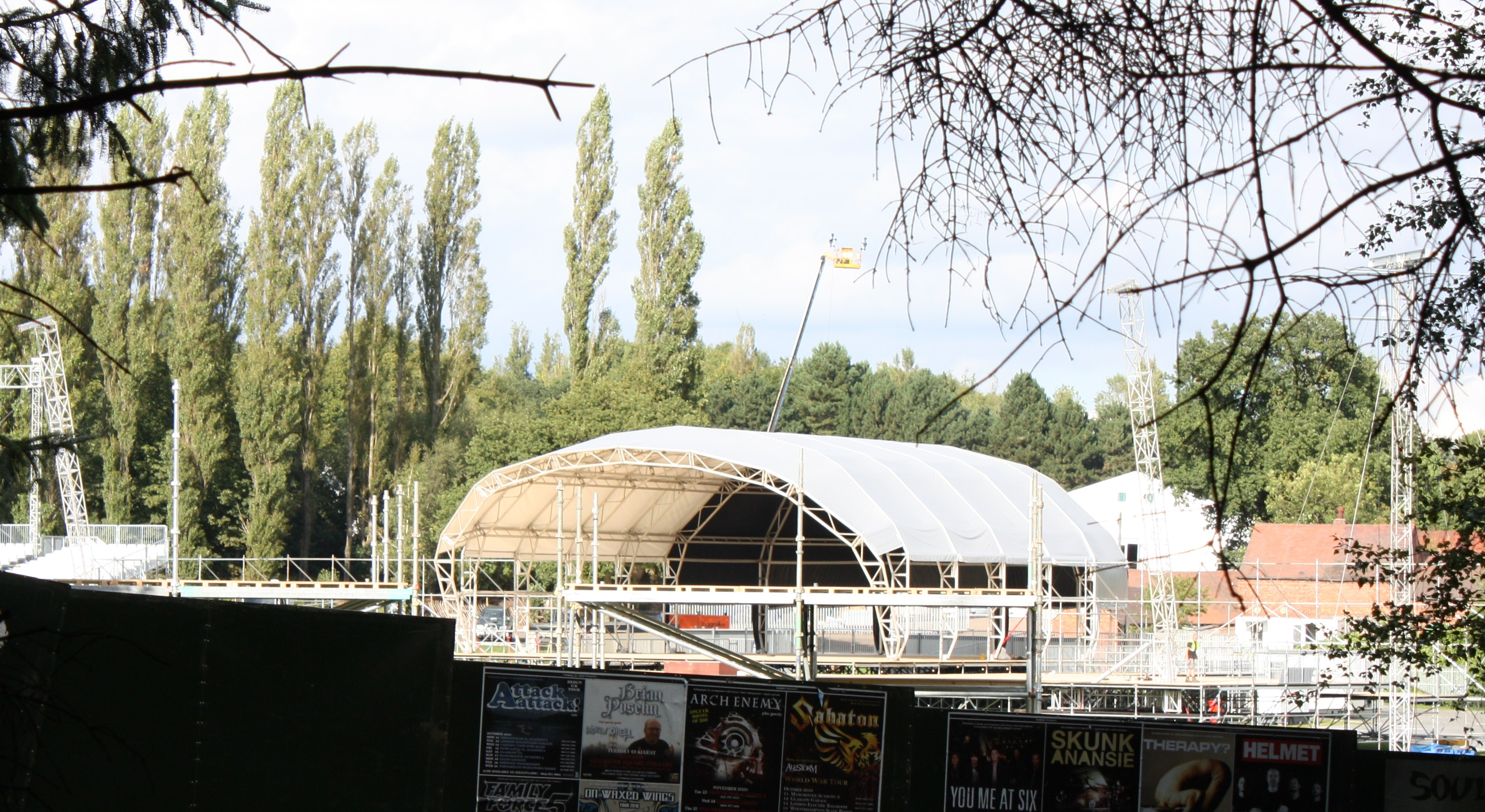 Cofton Park on the outskirts of Birmingham being prepared for the papal visit of Pope Benedict XVI. It will be the location of the beatification of Cardinal Newman.